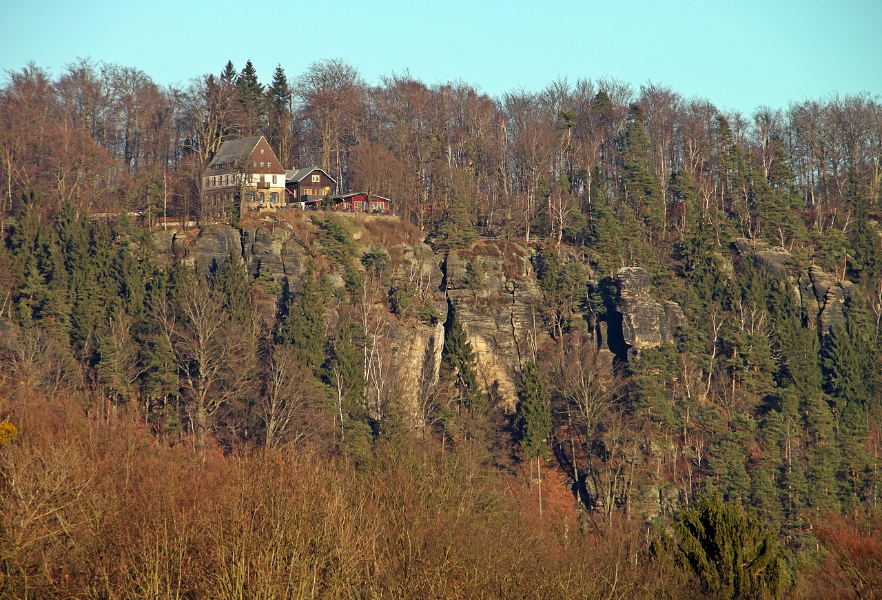 Saxon Switzerland: the look-out-point Brand (317 m) seen from Waltersdorf.